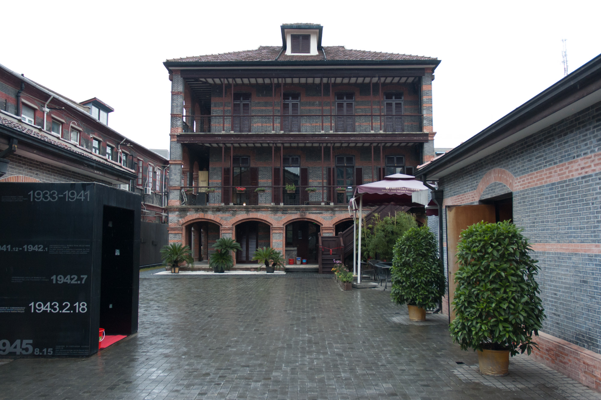 View from the courtyard of the Shanghai Jewish Refugees Museum, showing the former Ohel Moshe Synagogue (center) and exhibition halls (left and right).